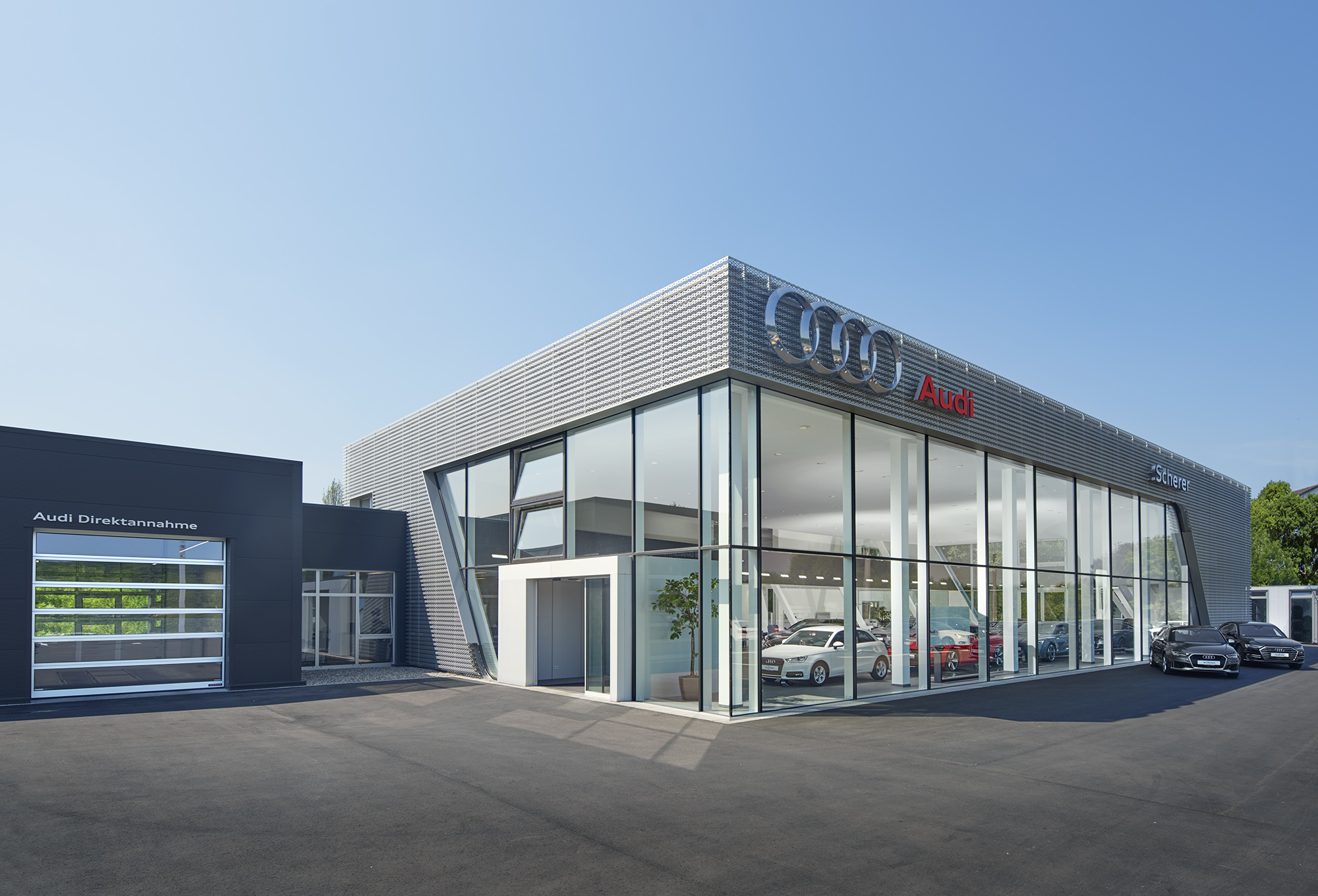 Scherer Audi Autohaus im Terminal-Stil.